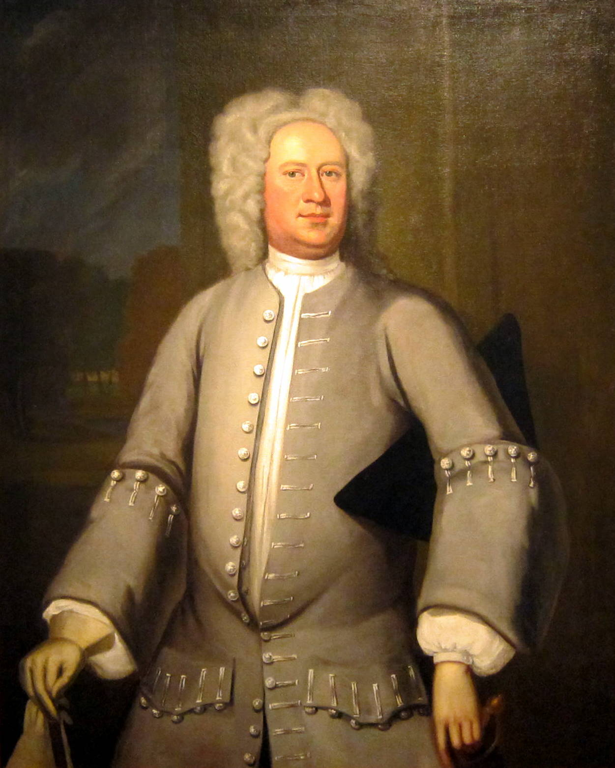 Portrait of Robert "King" Carter